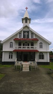 Bodo congregation they have built this beautiful Church building for God's Kingdom and is situated on the middle west of the Gossaigaon town.